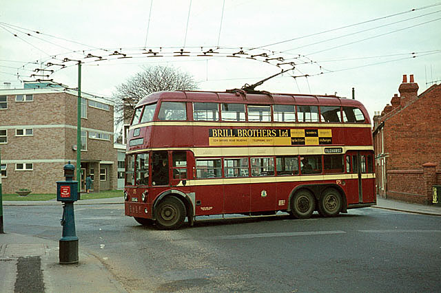 A trolleybus running on Reading Transport's main line from the Three Tuns to the Bear in Tilehurst, seen at the Three Tuns terminus. For more information see the Wikipedia article Reading Transport Ltd.